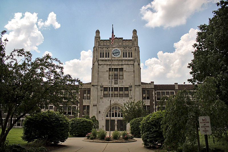 This school at 301 S 25th St, Terre Haute, Indiana, is on the National Register of Historic Places.